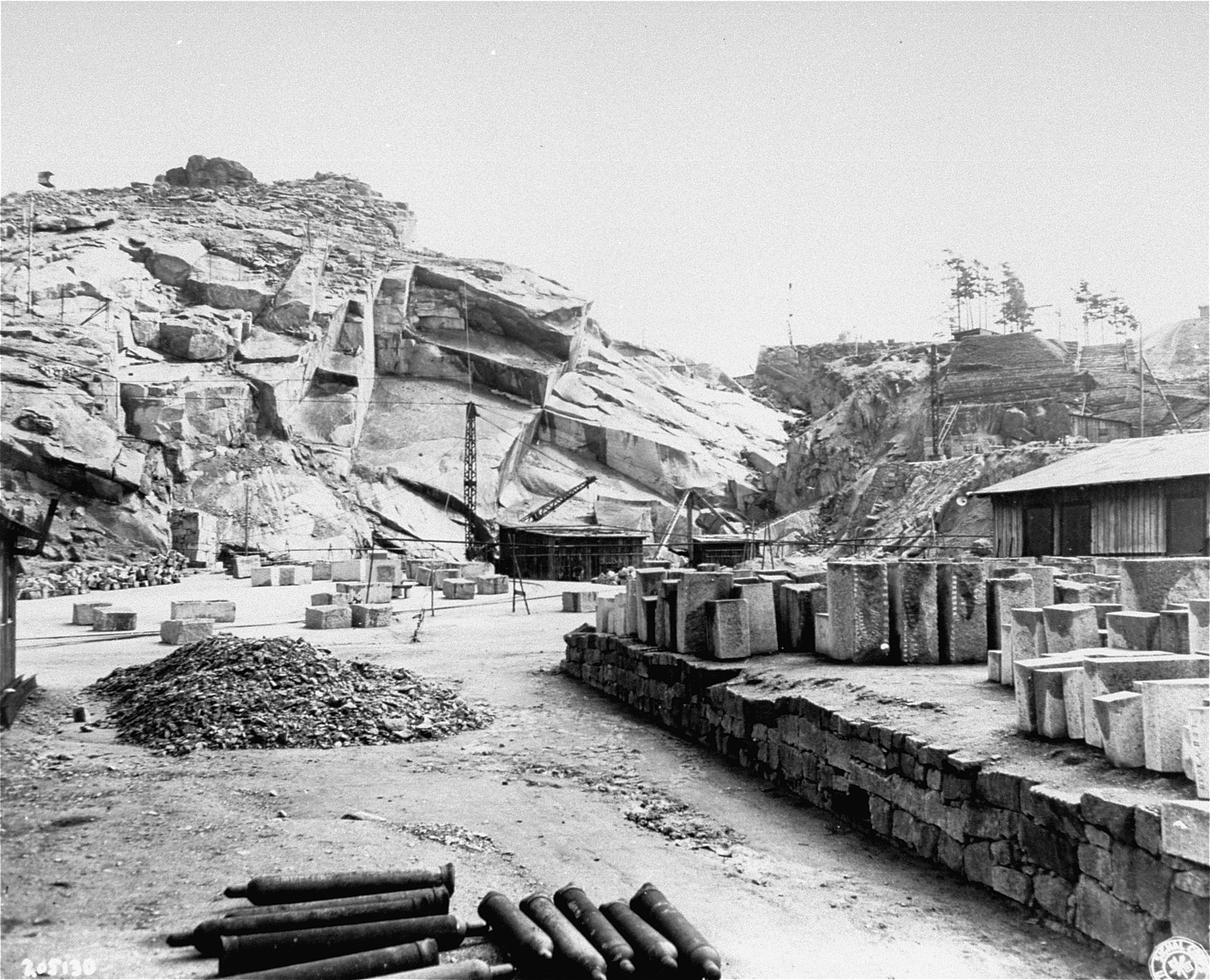 Quarry at Flossenbürg concentration camp